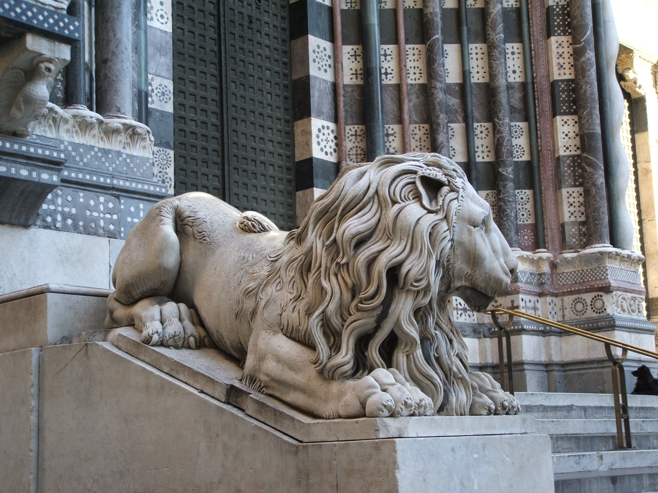 A lion embellishing the stairs of the Cathdreal in Genoa (Italy).